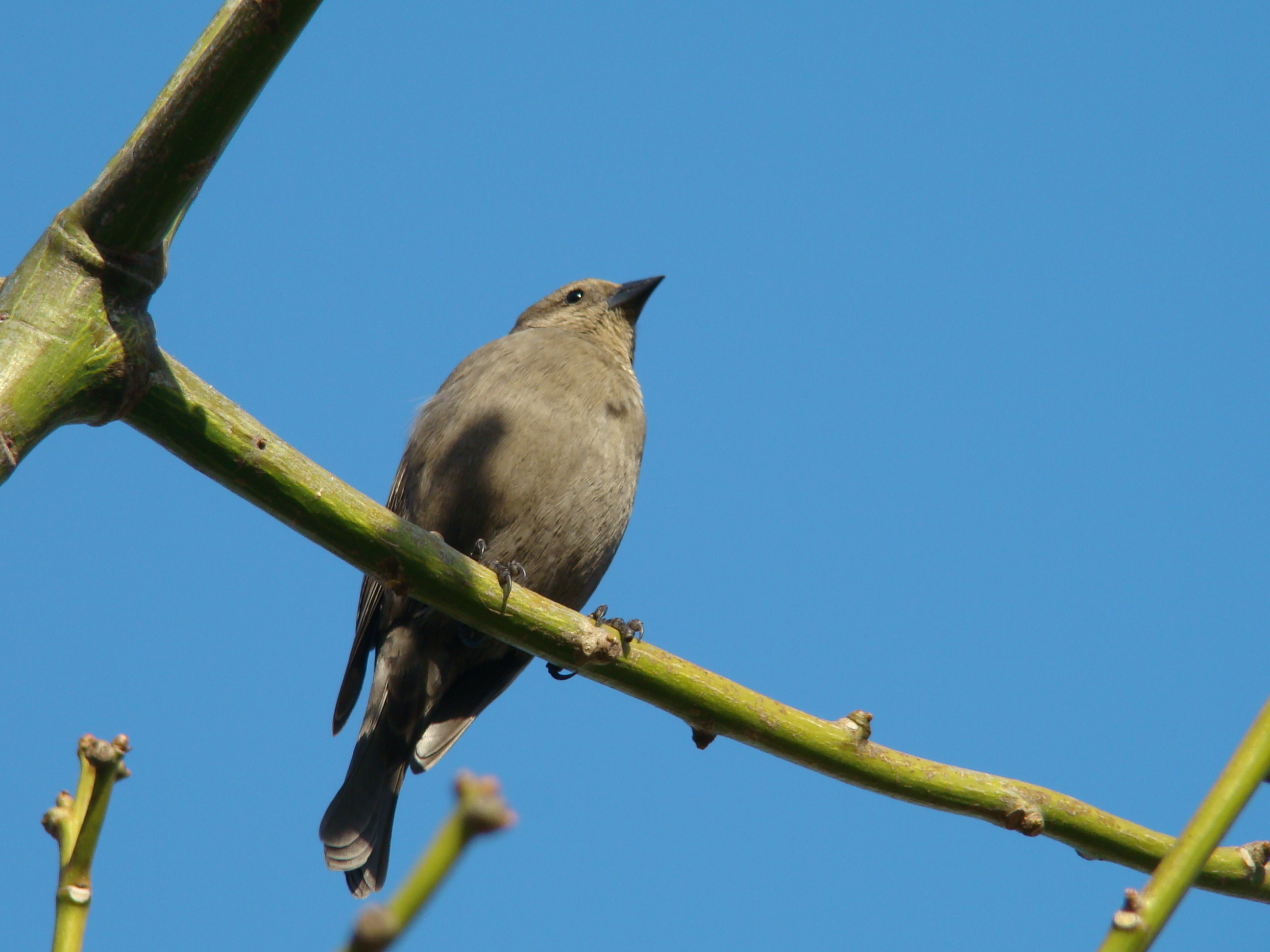 Molothrus bonariensis - hembra